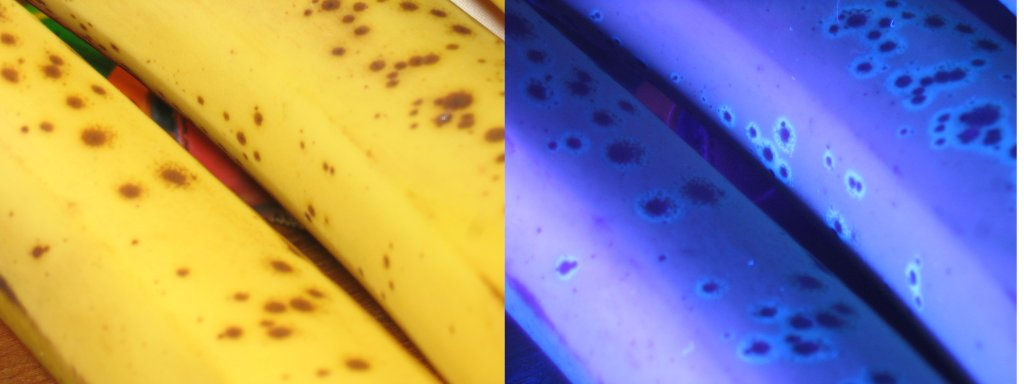 banana fluorescence under black light